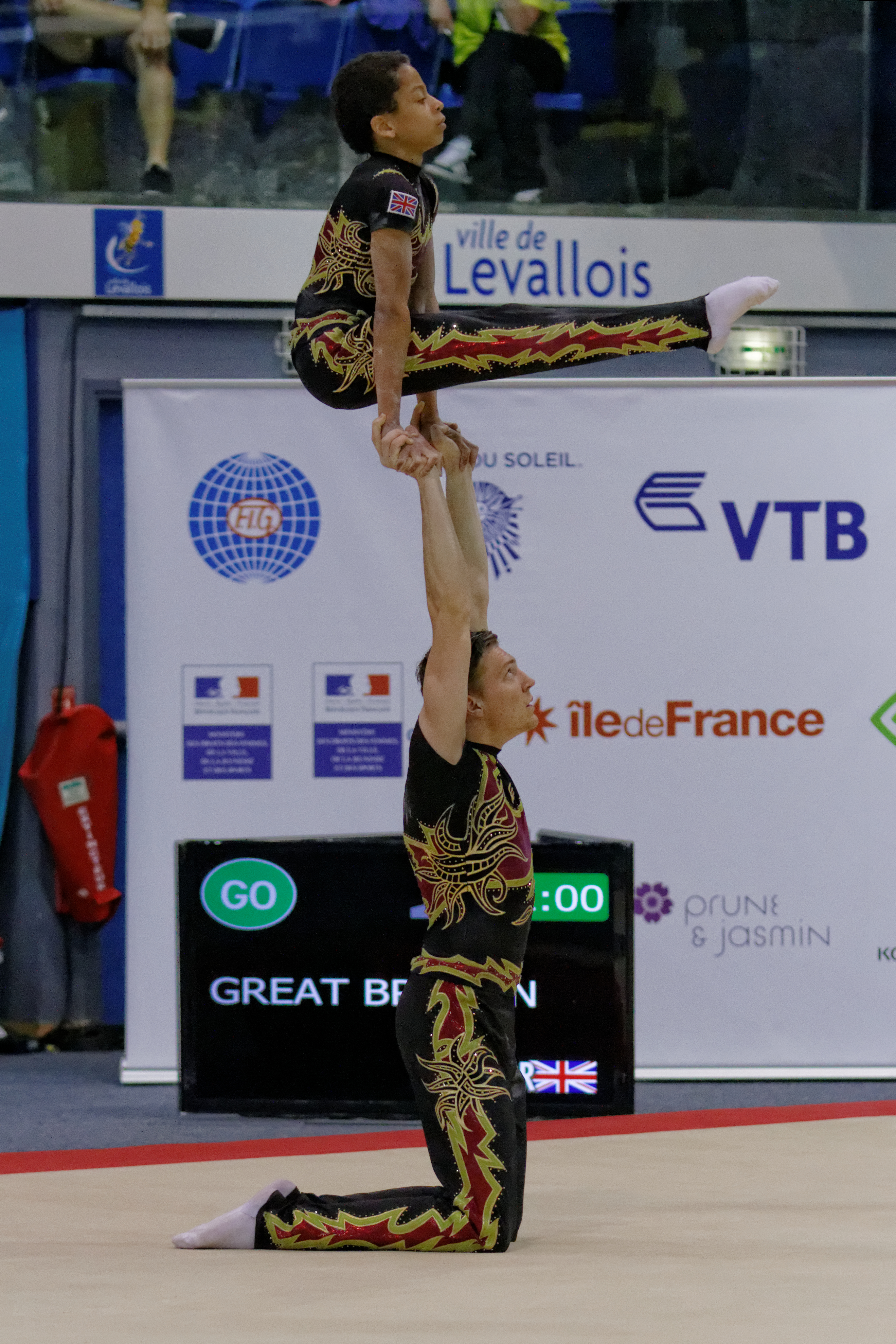 2014 Acrobatic Gymnastics World Championships, 10th-12 July, Levallois-Perret, France. Finals: men's pair. Great Britain.